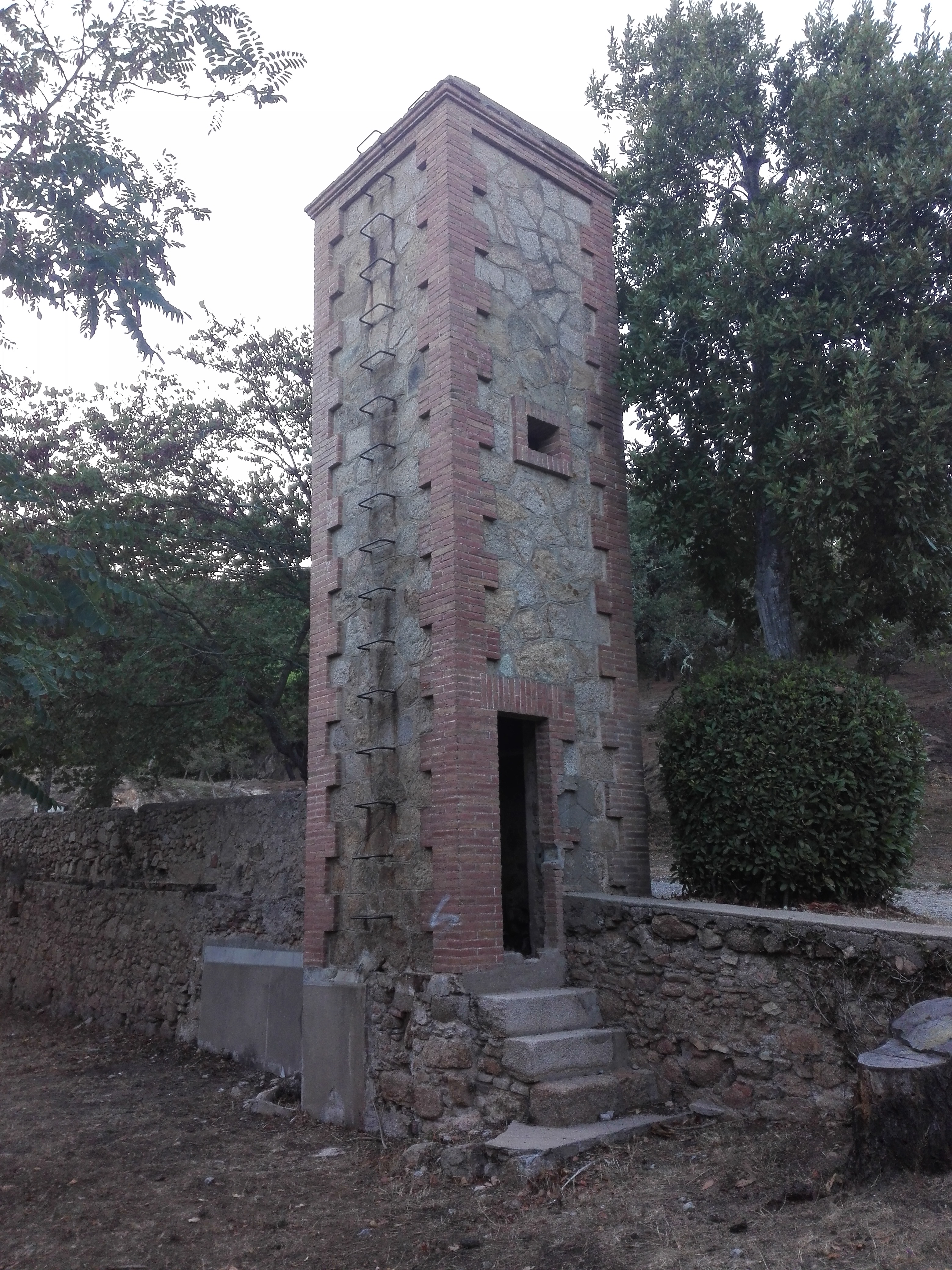 Water tower at Sant Grau d'Ardenya.